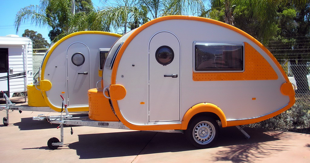 Two “Tabbert T@b” caravans on display